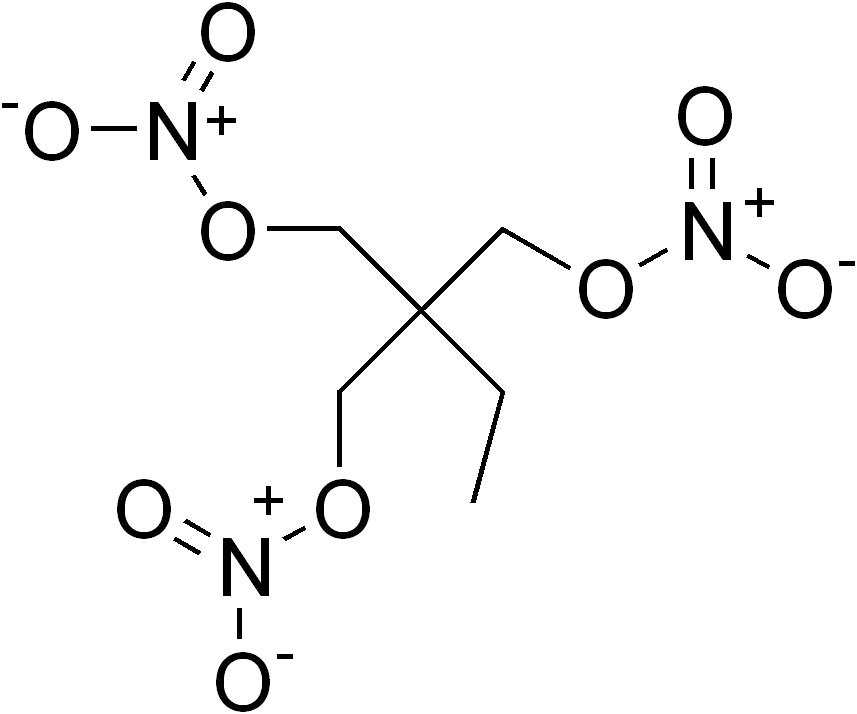 chemical structure of propatyl nitrate